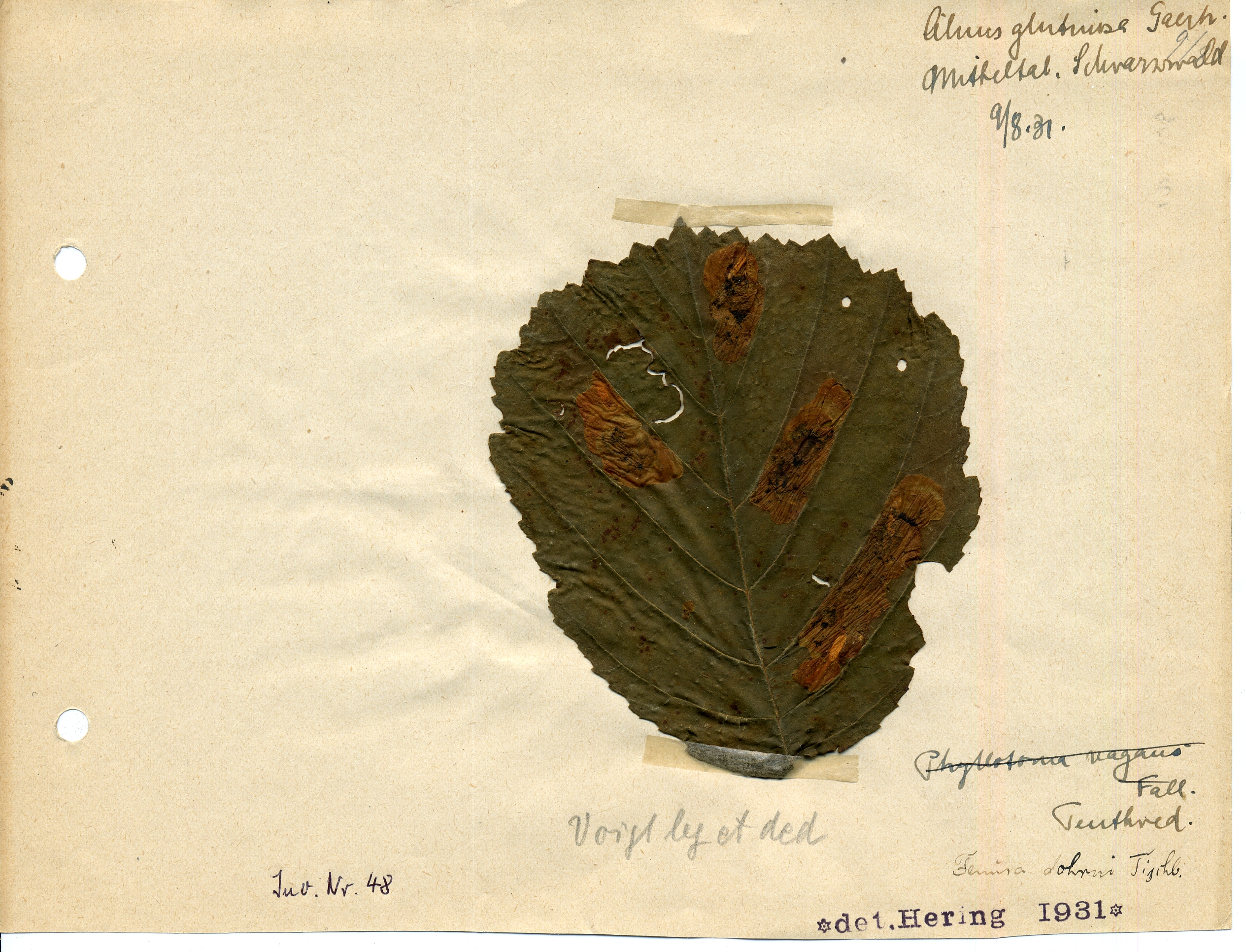 Leaf-mark Coll. Friedrich Ludwig Stellwaag. Host plant: Alnus glutinosa (Betulaceae) - Parasite: Fenusa dohrnii (Tenthredinidae) - Location: Mitteltal, Schwarzwald, 09.VIII.1931,leg. Voigt, det. Hering 1931, being processed by Gisela Schadewaldt.